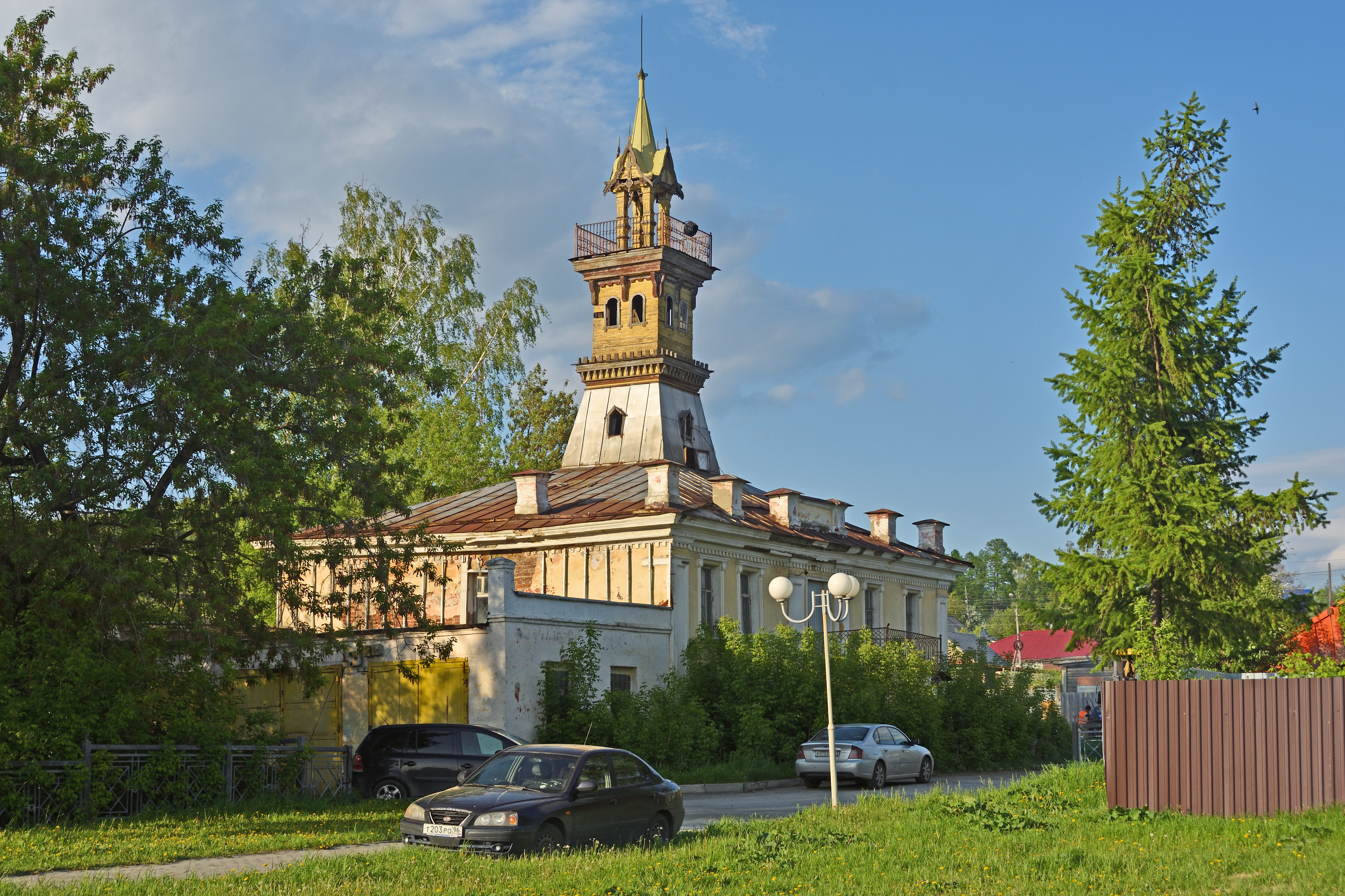 Volost government building, Verkh-Neyvinsky, Sverdlovsk oblast, Russia